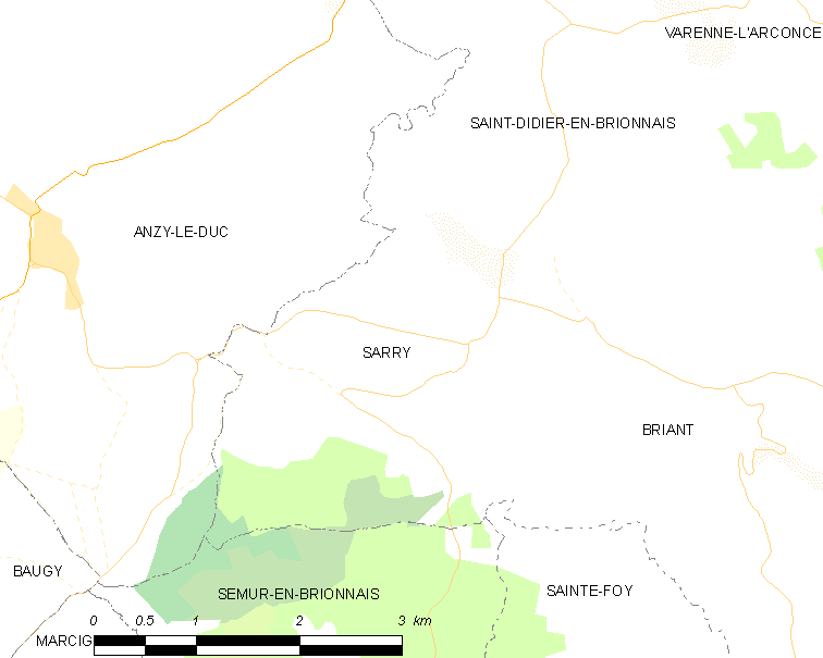 Map of French municipality